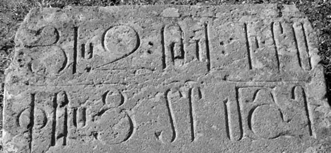 Grave inscription of the Armenian Catholicos Mashtots I. Garni, Armenia.